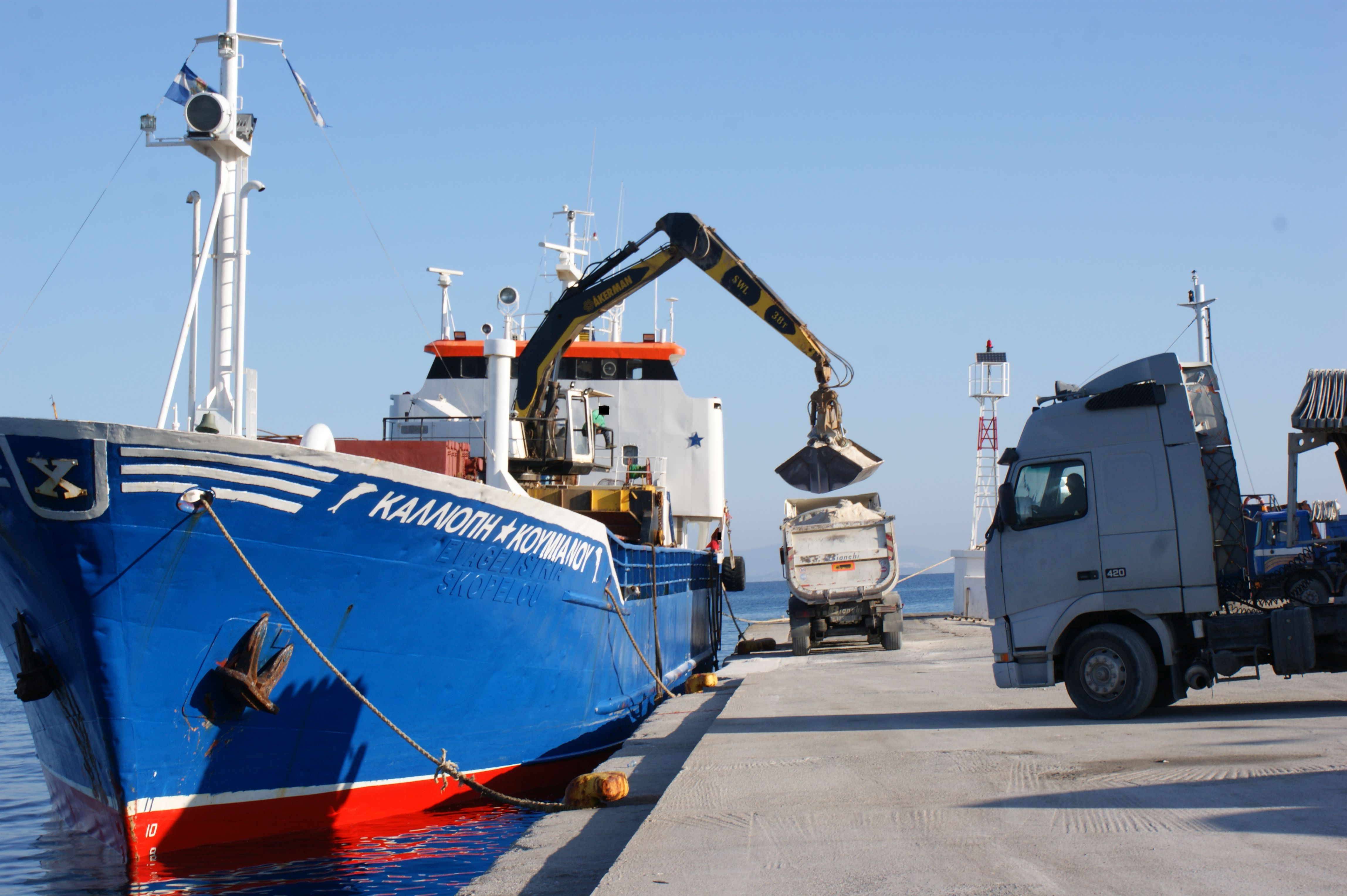 Port of Kos (Mandraki) on the Greek island of Kos. Bulk cargo transport ship Evagelistria Skopelou at the pier of the port of Kos.